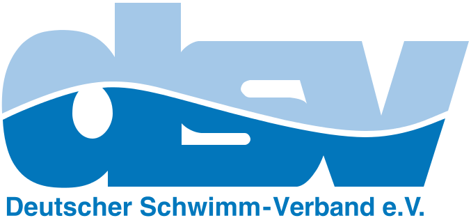 DSV Logo